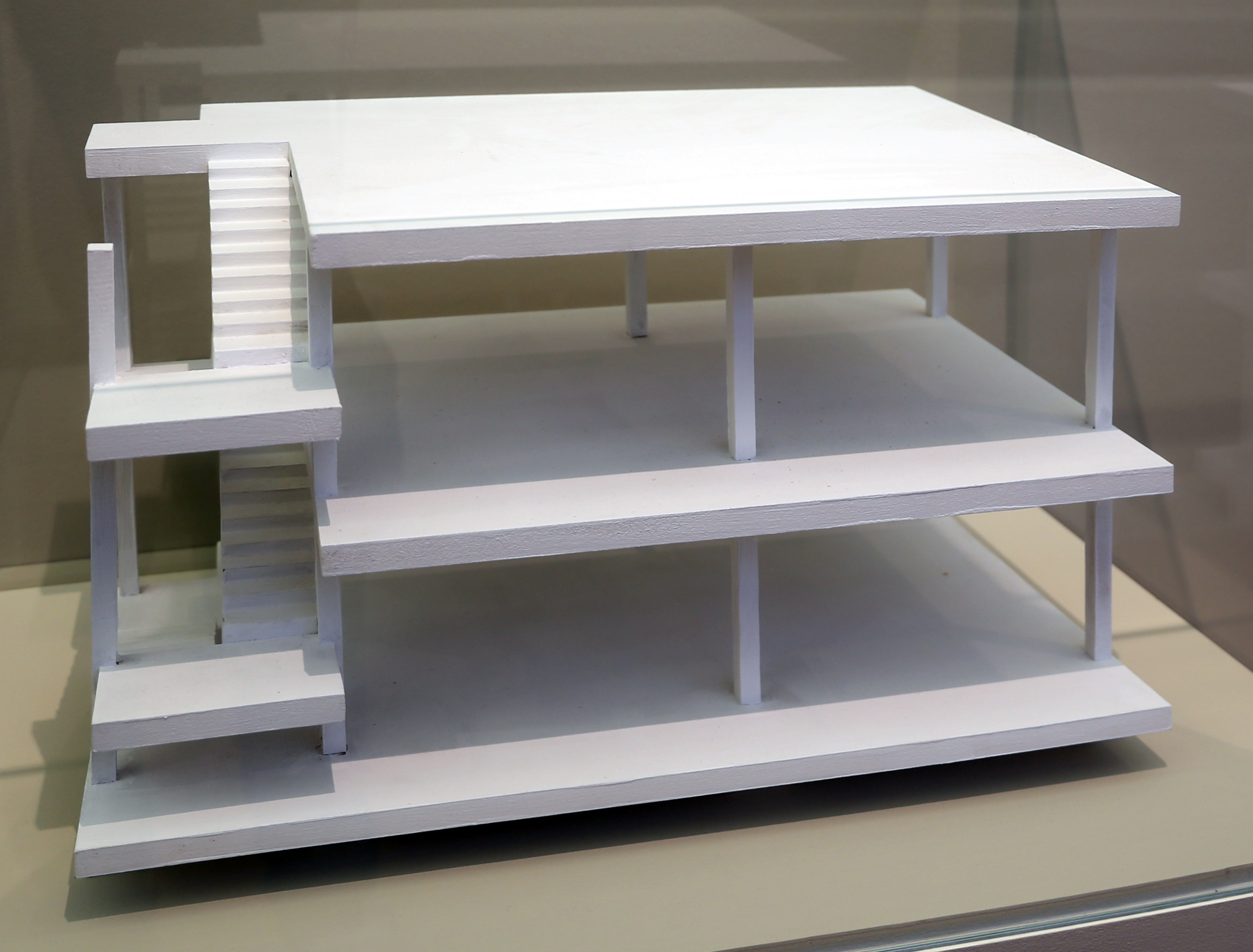 Architectural models in the Gemeentemuseum Den Haag